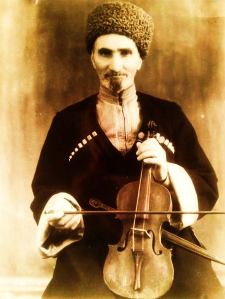 Mysykkaty Tembolat, rhapsode of Ossetian Narts sagas